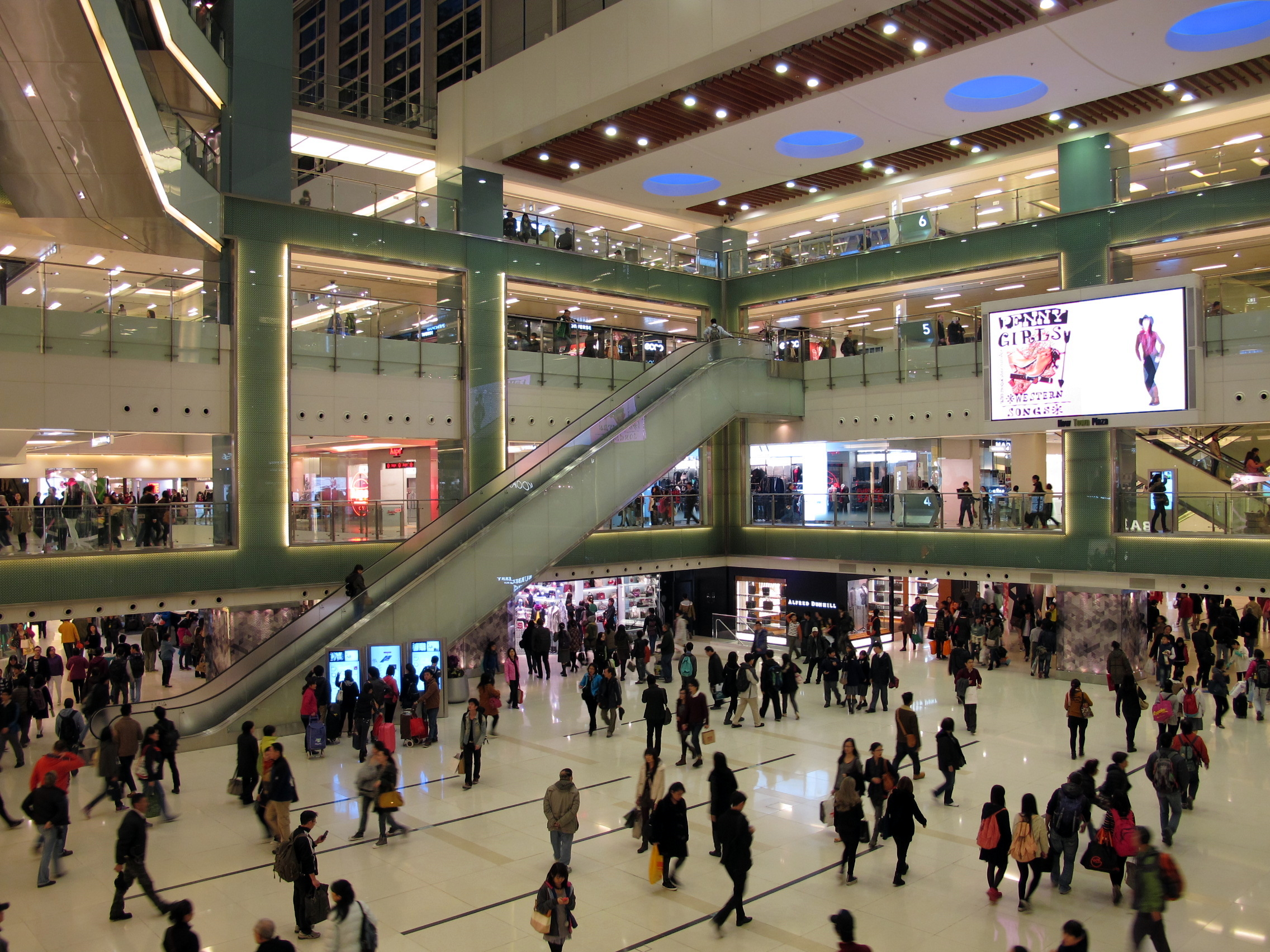 New Town Plaza Phase 1 新城市廣場一期